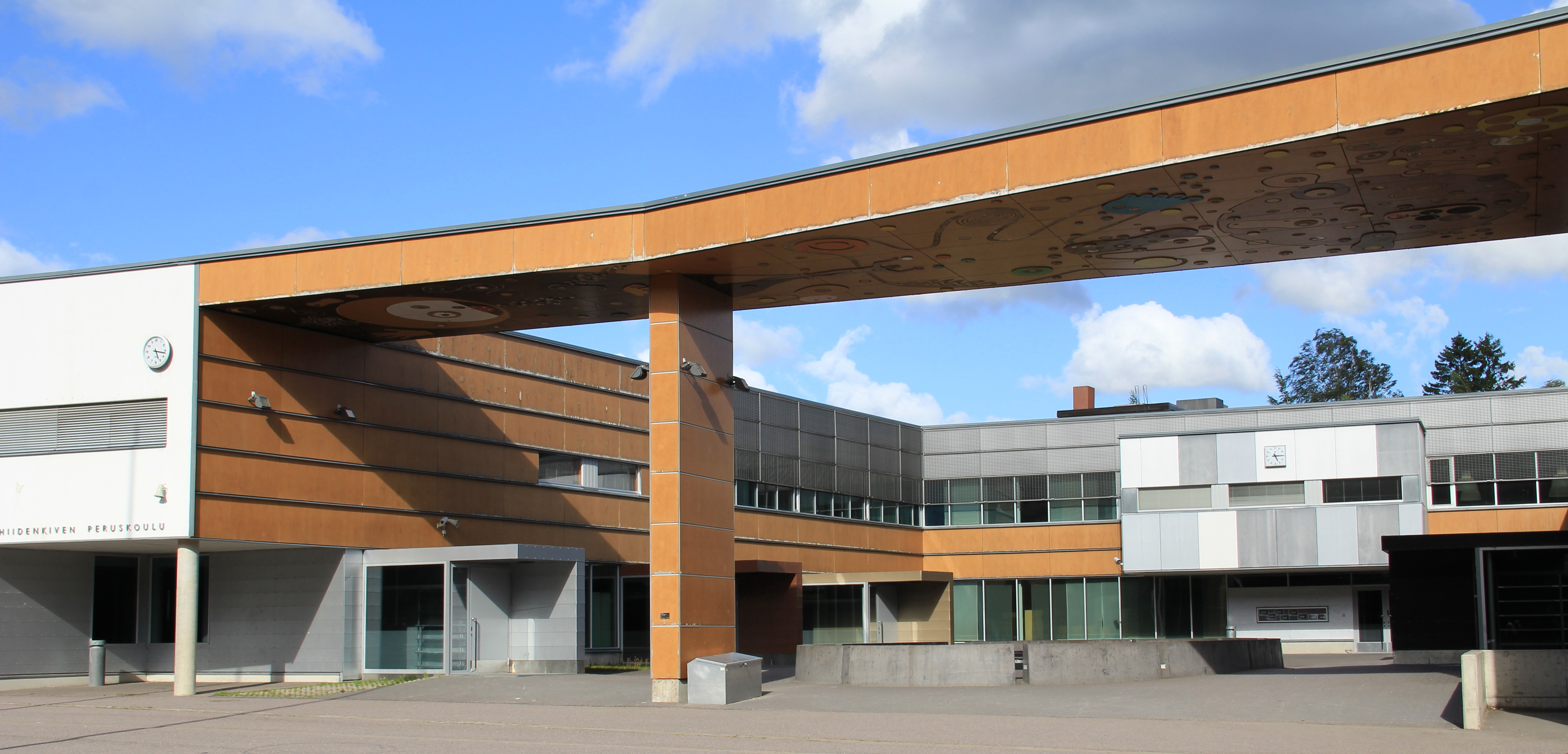 Hiidenkivi primary school, Tapanila, Helsinki, Finland. - Main entrance